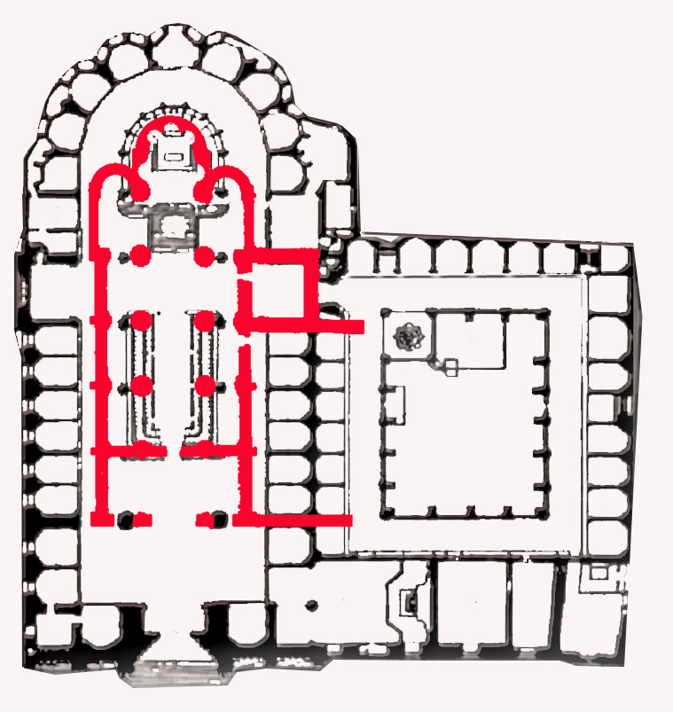 Situacion of old romanesque cathedral of Barcelona(red) in the place now ocuppied by gothic one (red)